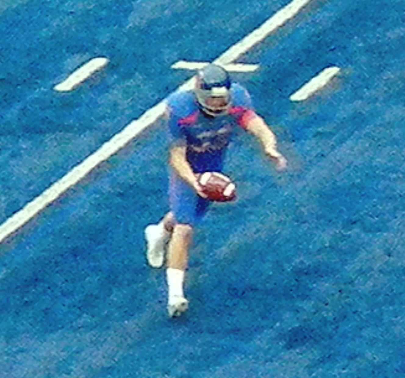 Boise State kicker Kyle Brotzman in a game vs San Jose State on October 31, 2009 in Boise, ID